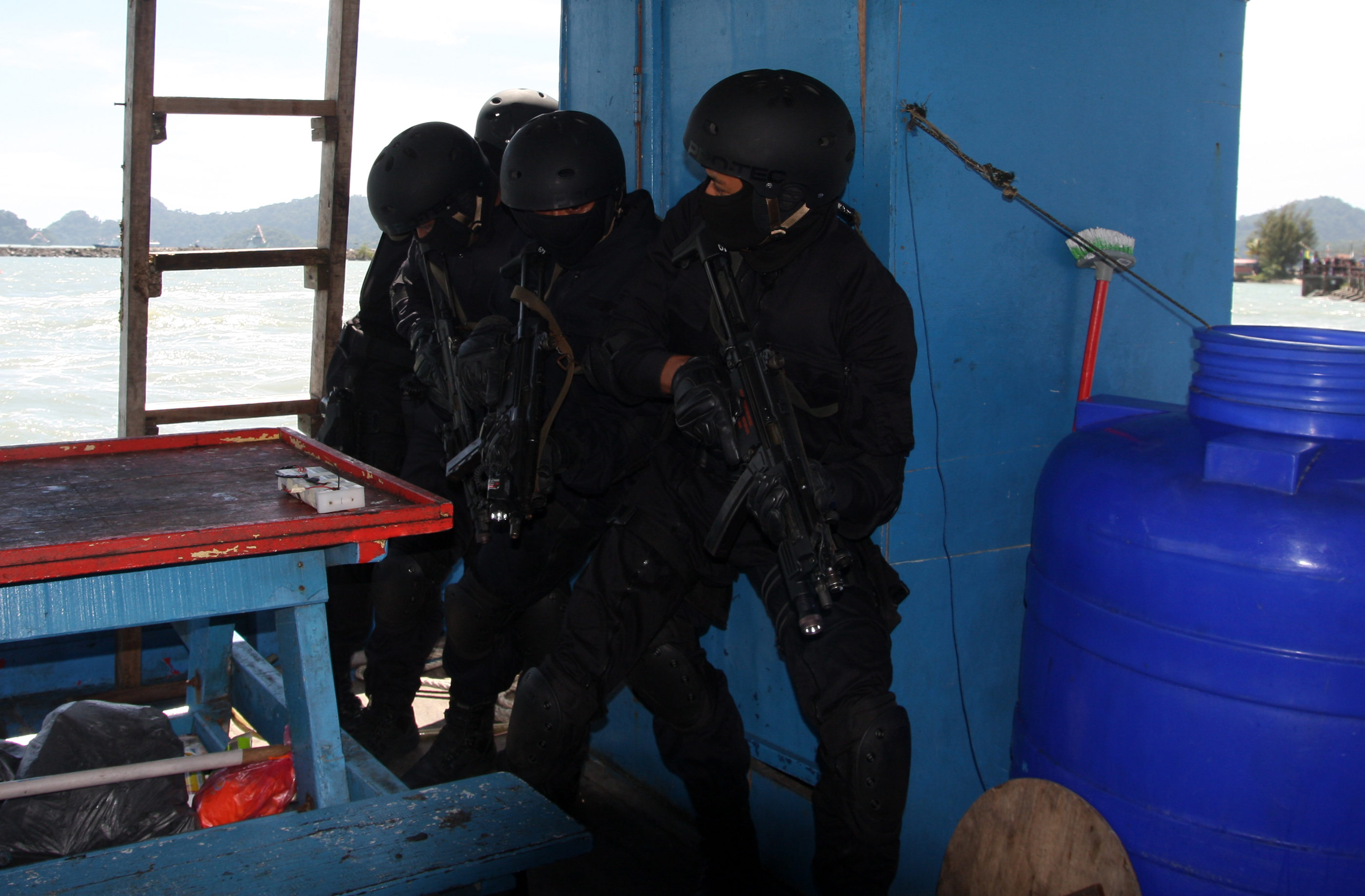 A masked UNGERIN officers during a shipboarding on a hijacked ship. They armed with the Heckler & Koch MP5A5 submachineguns fitted with Surefire 628 dedicated forend weaponlight. The unit officers have traditionally worn the Nomex Battle Dress Uniforms, Pro-Tec helmets, Magnum Stealth tactical boots and Blackhawk tactical vests as well as Camelbak hydration packs. This shot taken during a demo at the Maritime Section during LIMA '09.